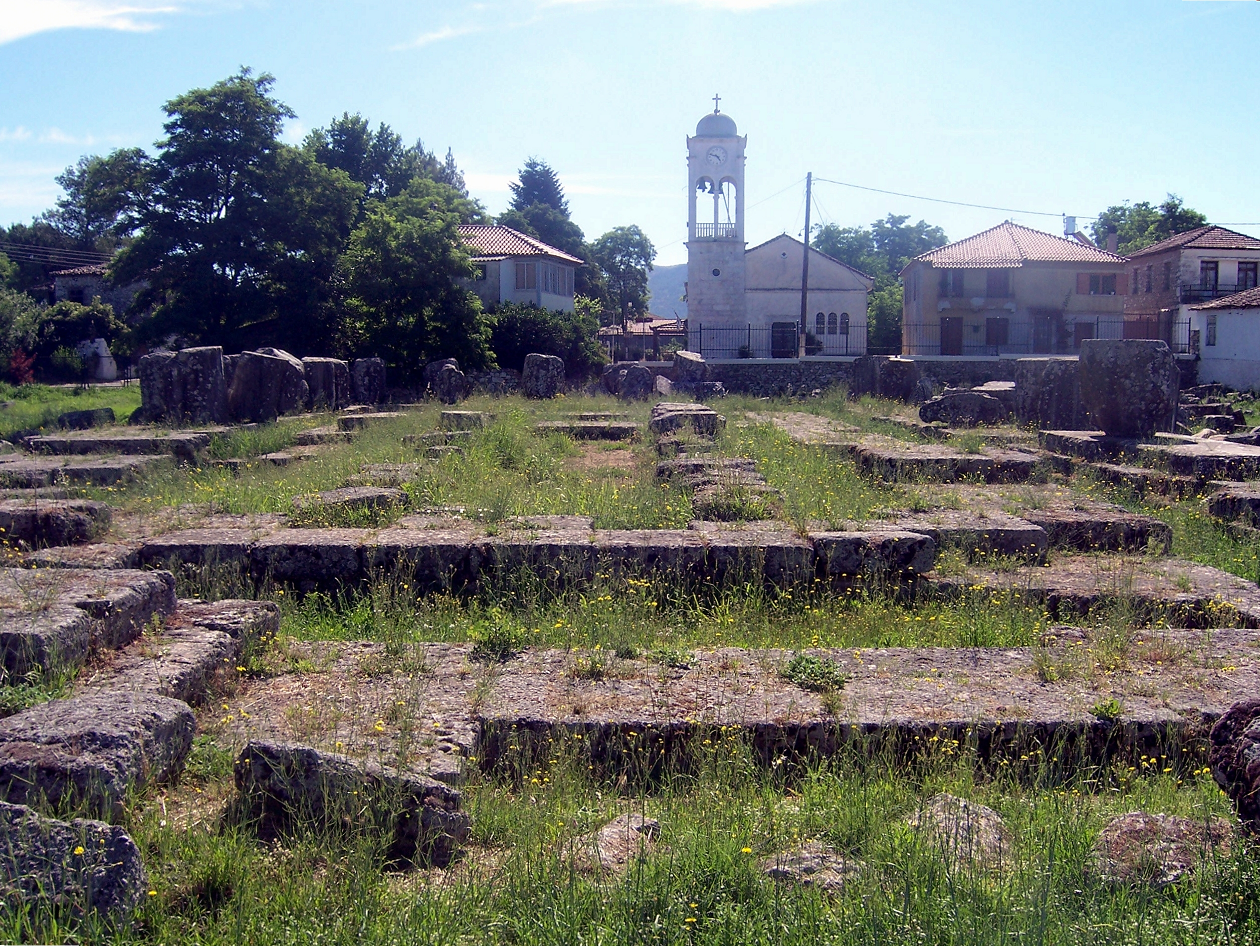 In 124 the emperor Hadrian visited Tegea, and had the baths rebuilt. This led to the adoption of a new chronological reckoning-point (IG v.2 no. 51-52). Like in Epidaurus, Tegea revised its calendar to start a new one to commemorate Hadrian's arrival. Alea (Greek: Ἀλέα) was an epithet of the Greek goddess Athena, prominent in Arcadian mythology, under which she was worshiped at Alea, Mantineia and Tegea. Alea was initially an independent goddess, but was eventually assimilated with Athena. The temple of Athena Alea at Tegea, which was the oldest, was said to have been built by Aleus the son of Apheidas, from whom the goddess probably derived this epithet. This temple was burned down in 394 BC, and a new one built by the architect Scopas, a temple of the Doric order which in size and splendor surpassed all other temples in the Peloponnese, and was surrounded by a triple row of columns of different orders. The statue of the goddess, which was made by Endoeus all of ivory, was subsequently carried to Rome by Augustus to adorn the Forum of Augustus. The temple of Athena Alea at Tegea was an ancient and revered asylum, and the names of many persons are recorded who saved themselves by seeking refuge in it. The priestess of Athena Alea at Tegea was always a maiden, who held her office only until she reached the age of puberty. On the road from Sparta to Therapne there was likewise a statue of Athena Alea.